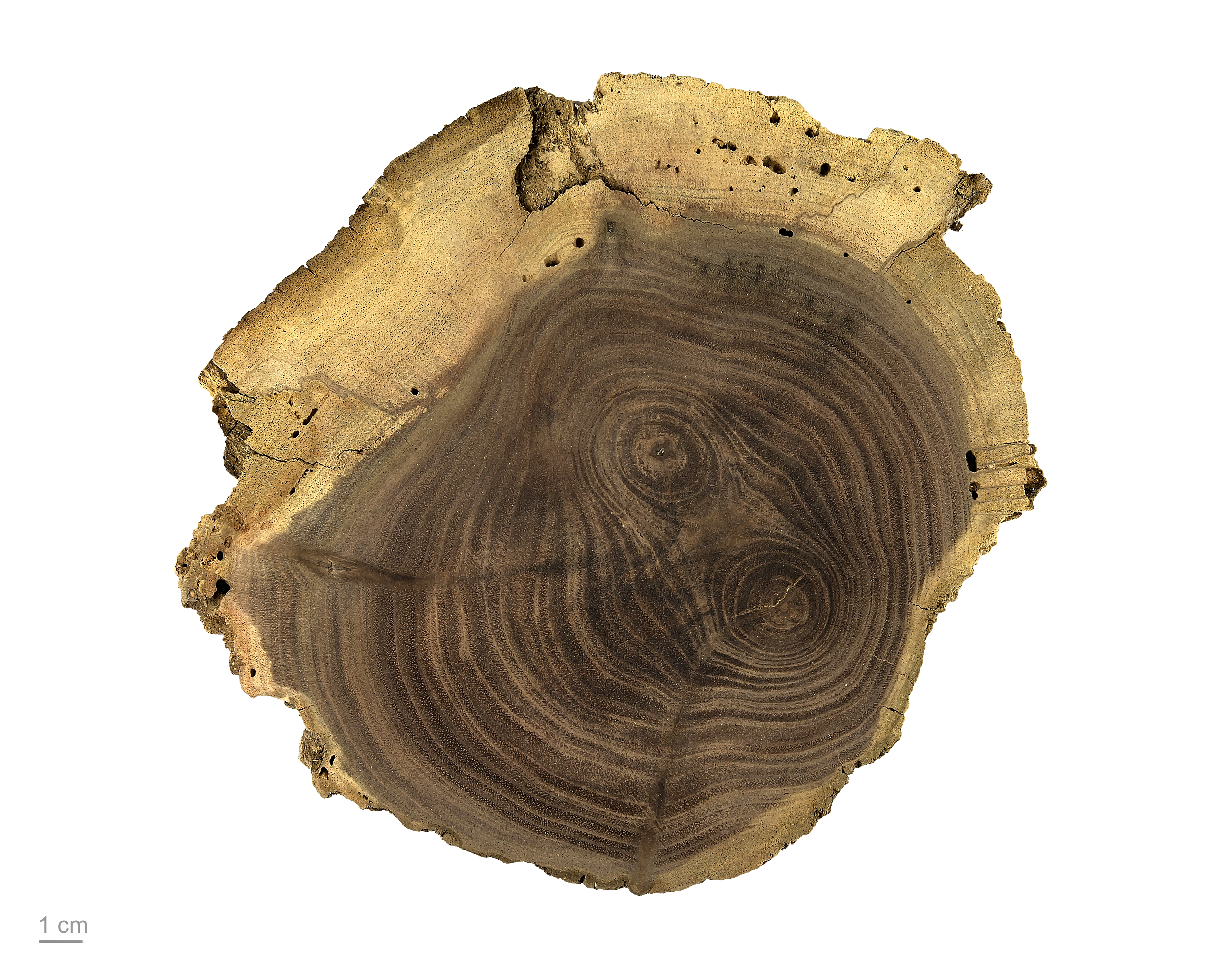 Juglans nigra, wood